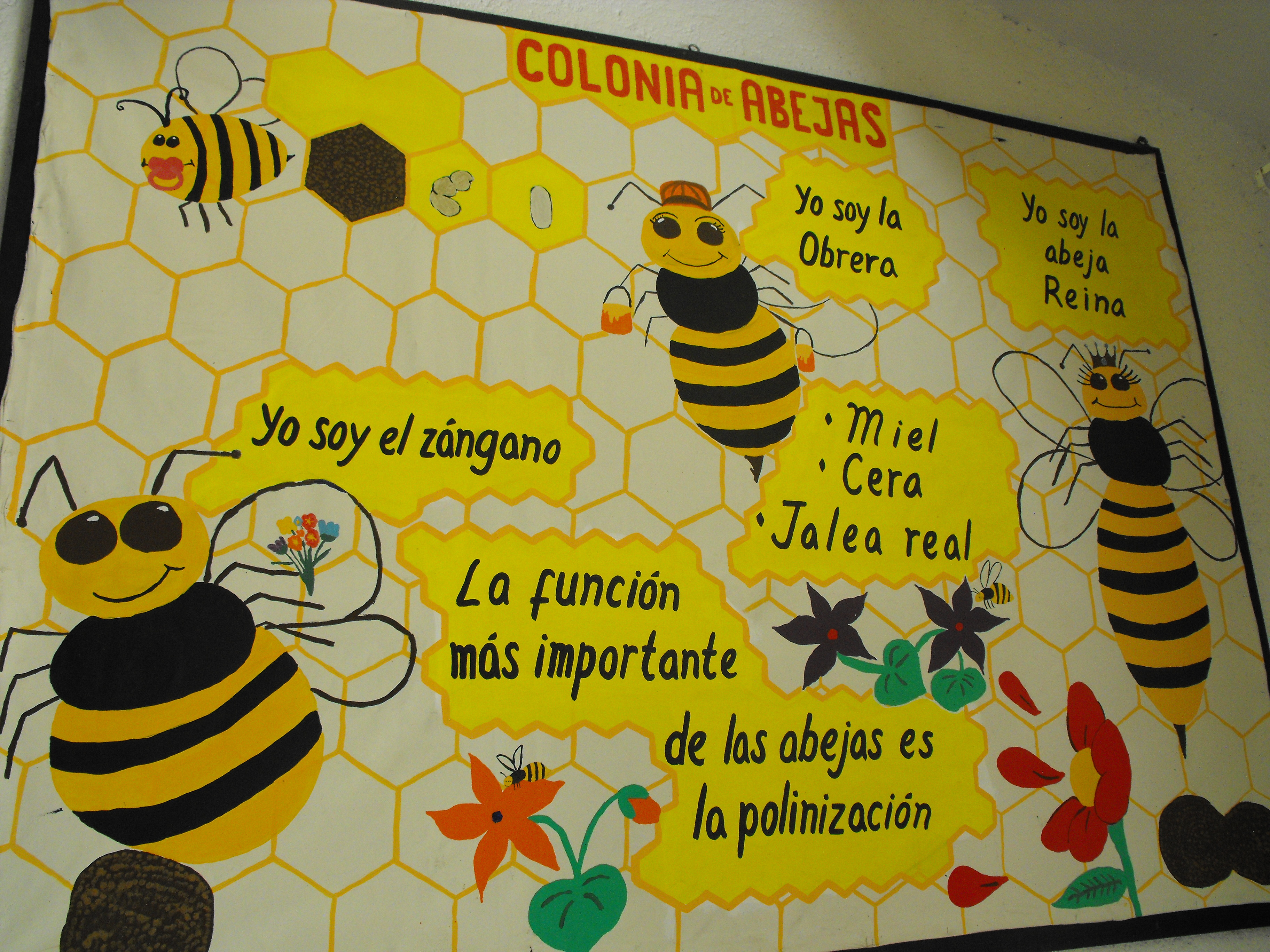 Pictured is a large poster that gives information about bee colonies, at Centro de Educación Ambiental Acuexcomatl, Mexico City, Mexico.